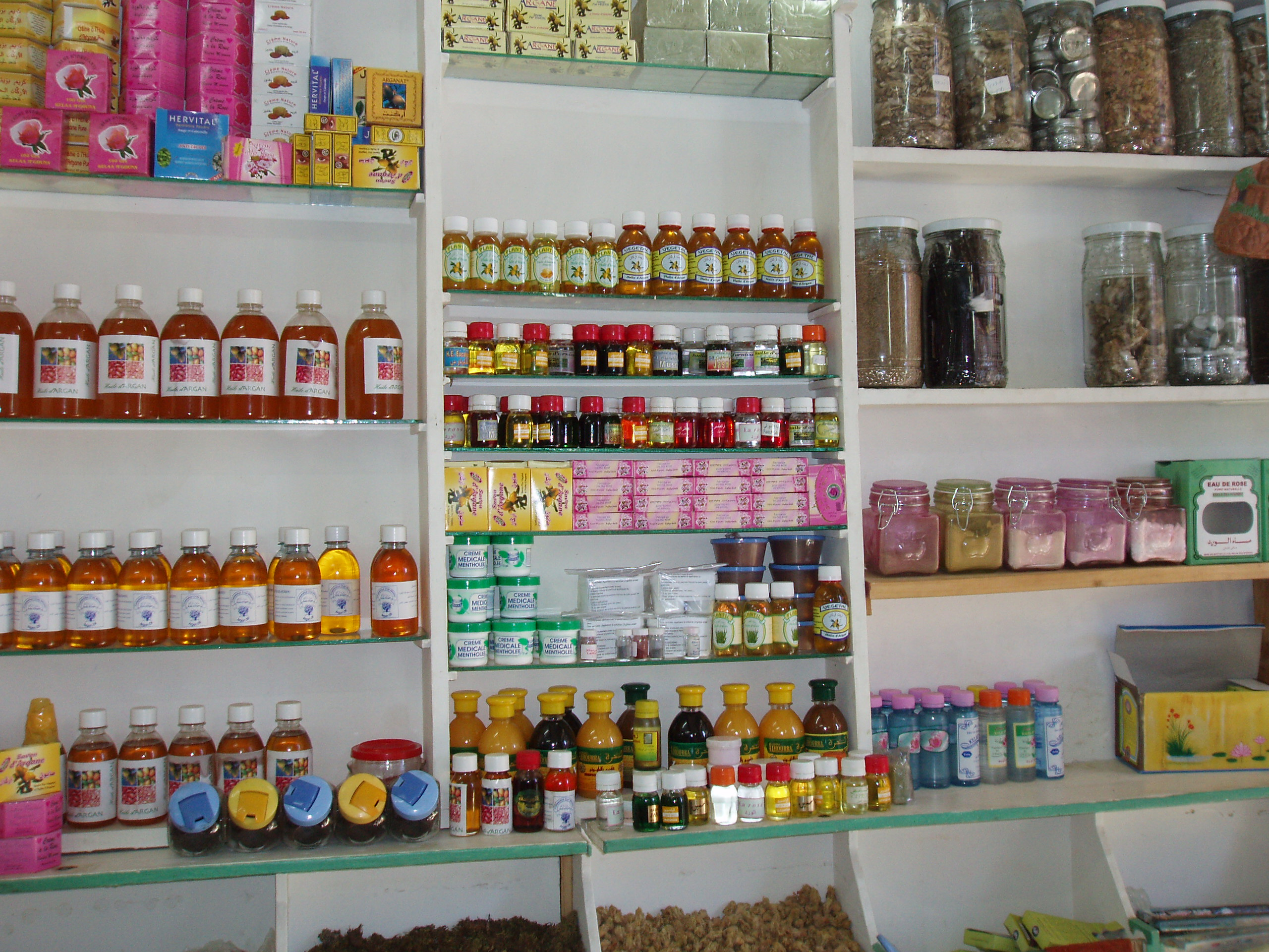 An arabic herbarge shop in the souk of Marrakech, Marocco.